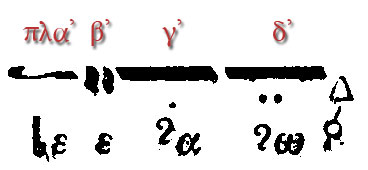 The current enharmonic phthora nenano (19th-century reception of Byzantine chant)